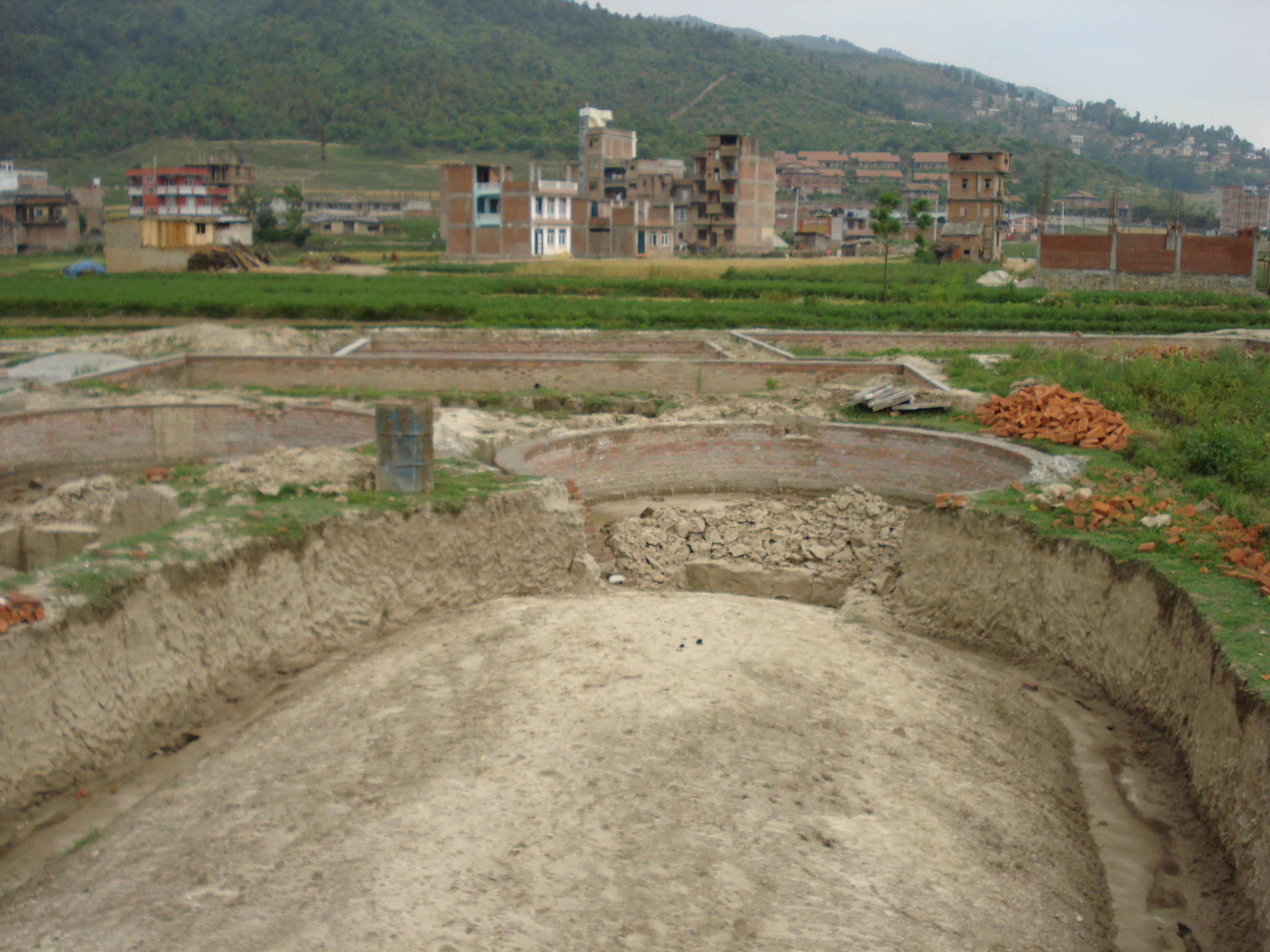 Nepal - Biogas photos by ENPHO